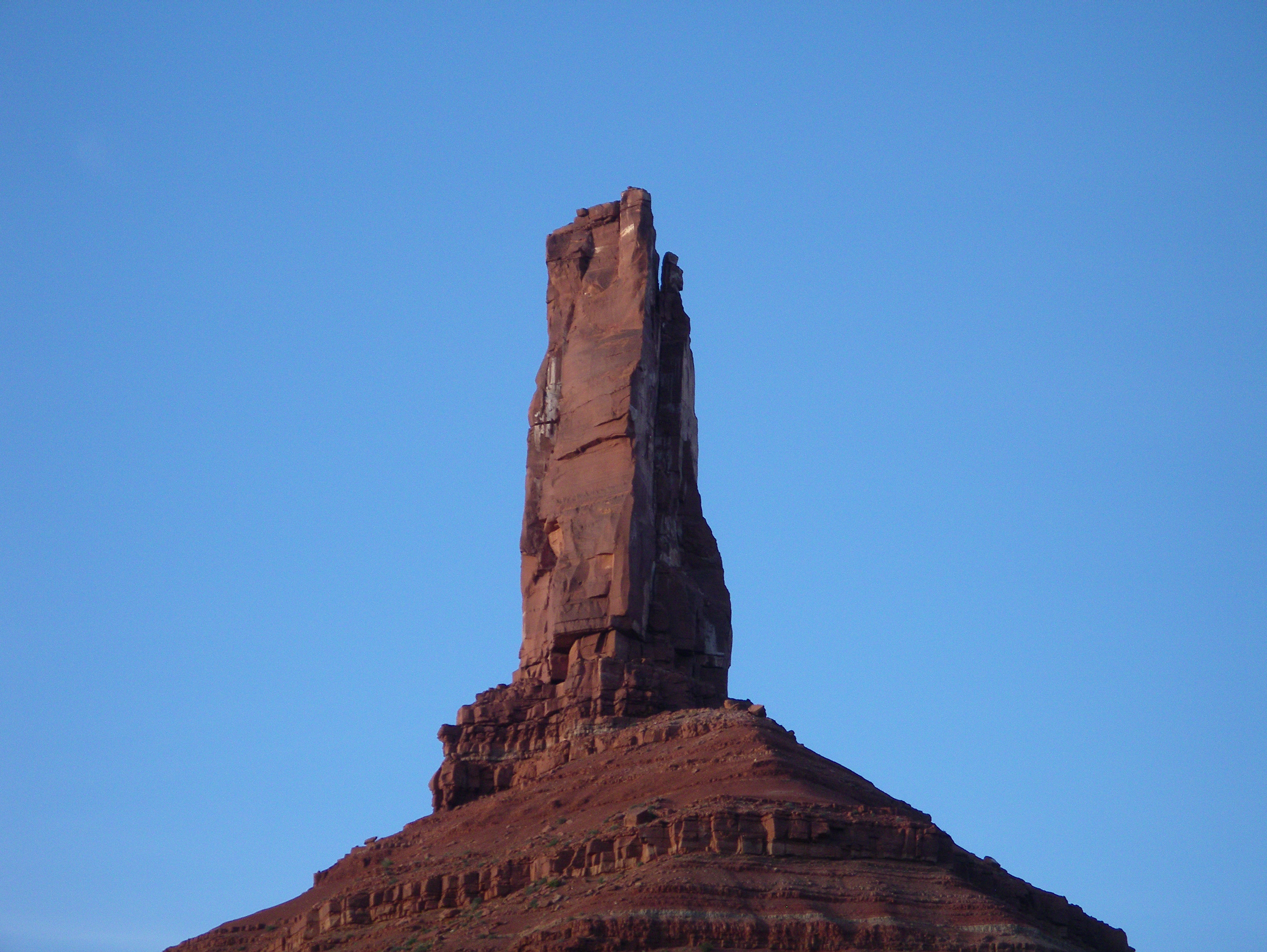 Castleton_Tower_(only)